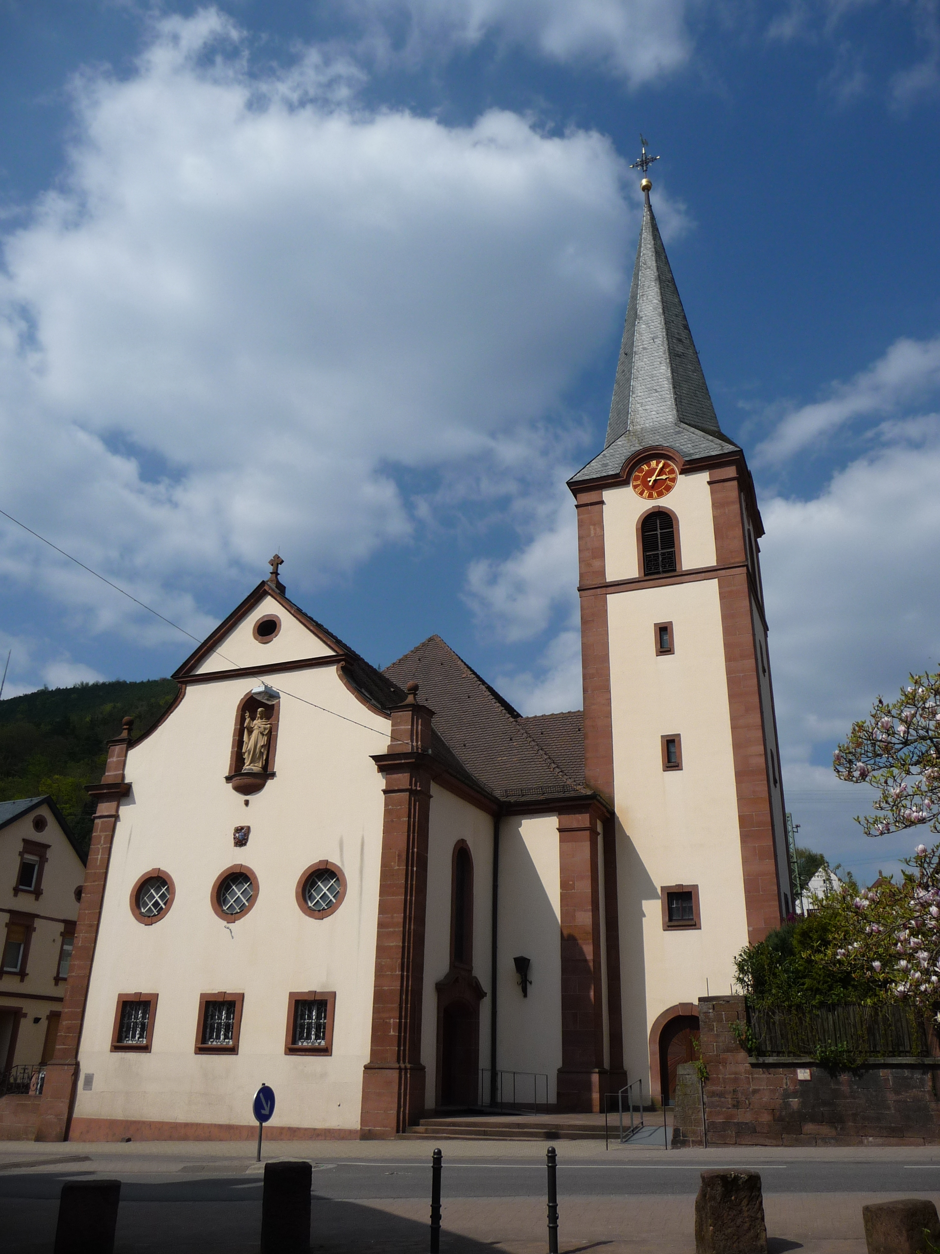 Churches in Lambrecht (Pfalz)